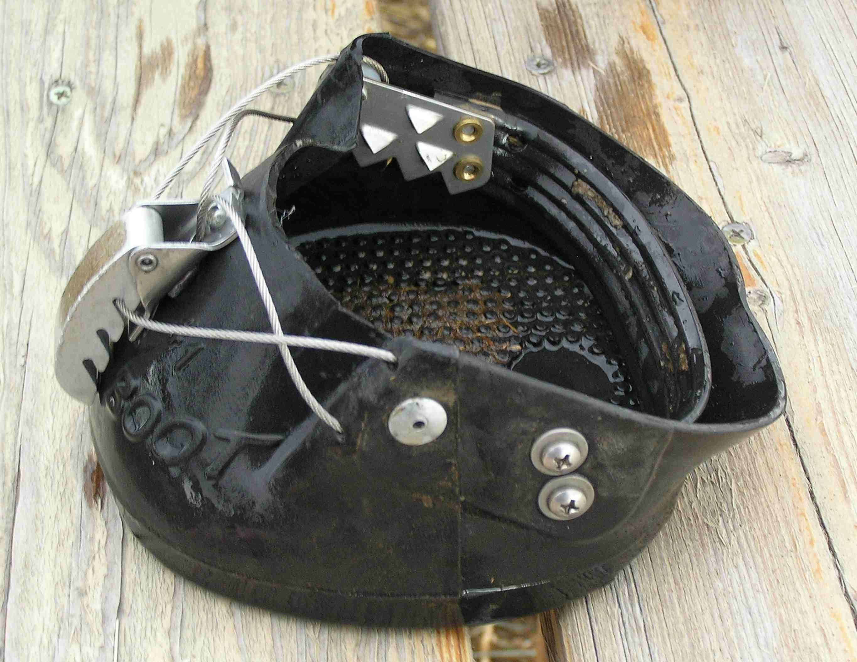 An Easyboot Horse Boot, used as a substitute for a horseshoe